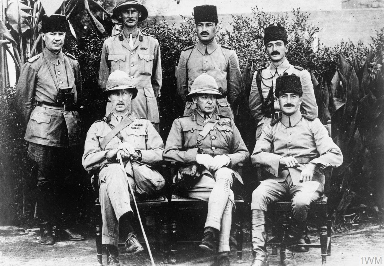 Picture of Major-General Townshend, Khalil Pasha and other unidentified officers after surrender of the Kut Garrison in 1916. Published in 1919.